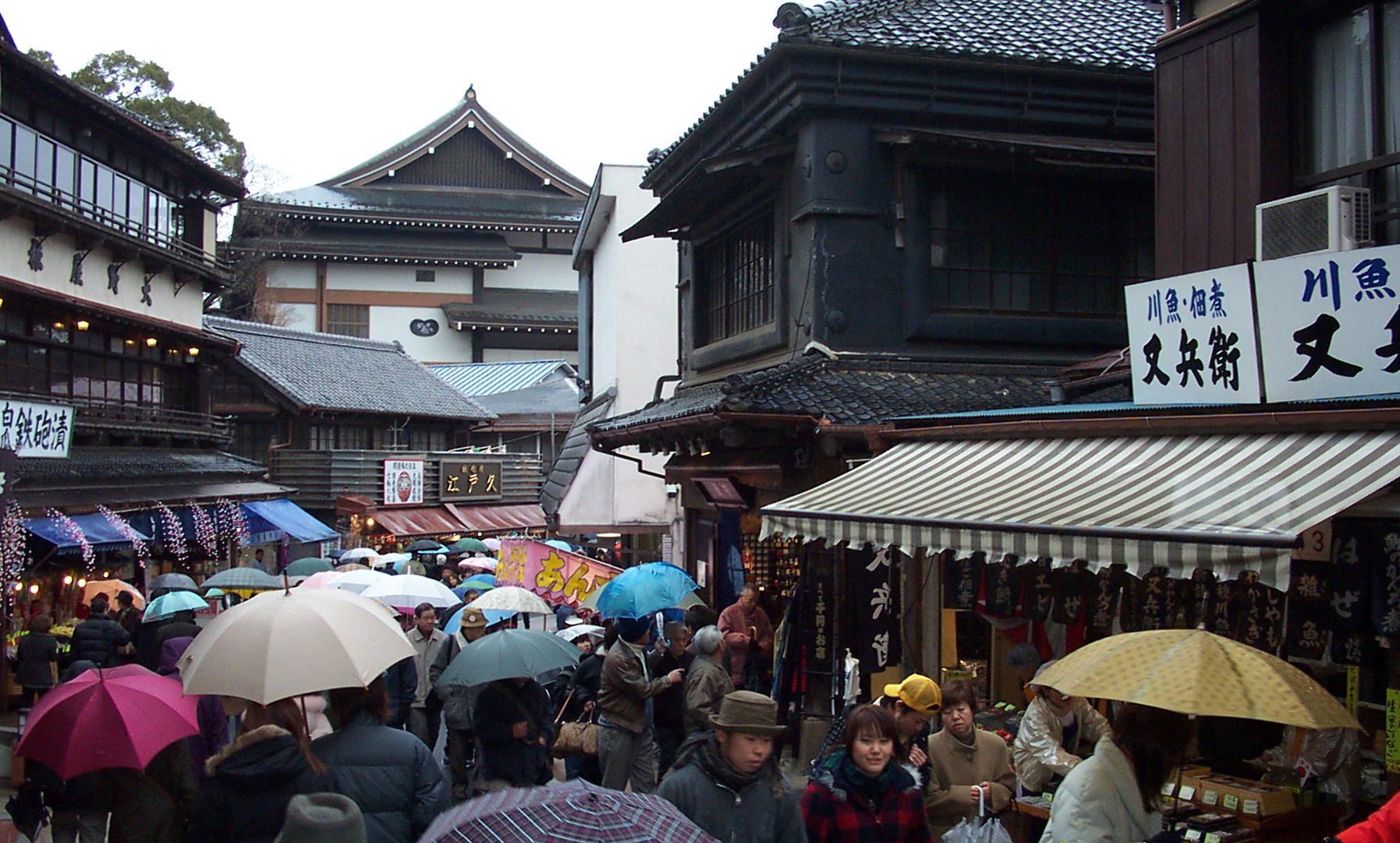 The main road in central Narita is Omotesandō (表参道), which is lined with about 150 small shops and has been extensively renovated in recent years. The street is a popular destination for tourists arriving at the Narita International Airport.